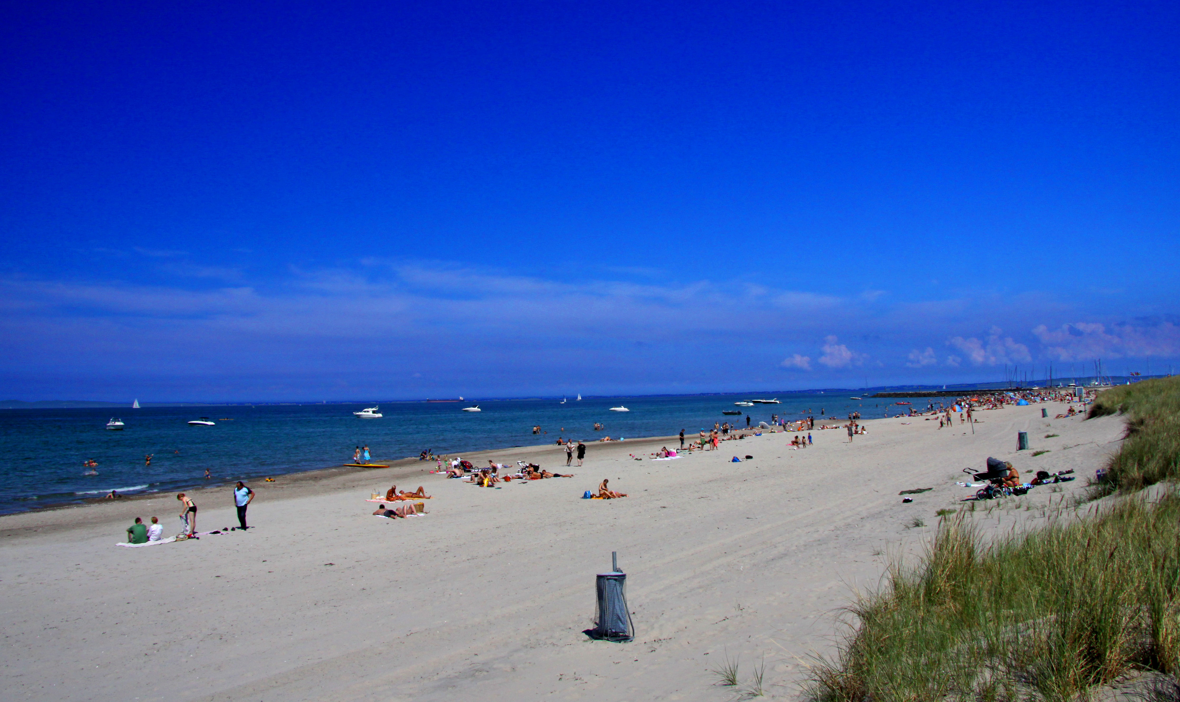 The Beach at Hornbæk, Denmark